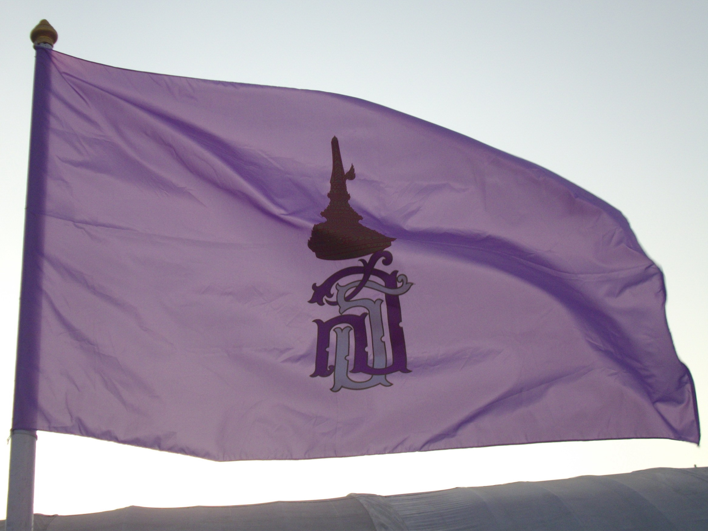 Flag of HRH Princess Maha Chakri Sirindhorn of Thailand. This picture was taken at Sanam Luang in Vesak Day of 2009, 8th May 2009.